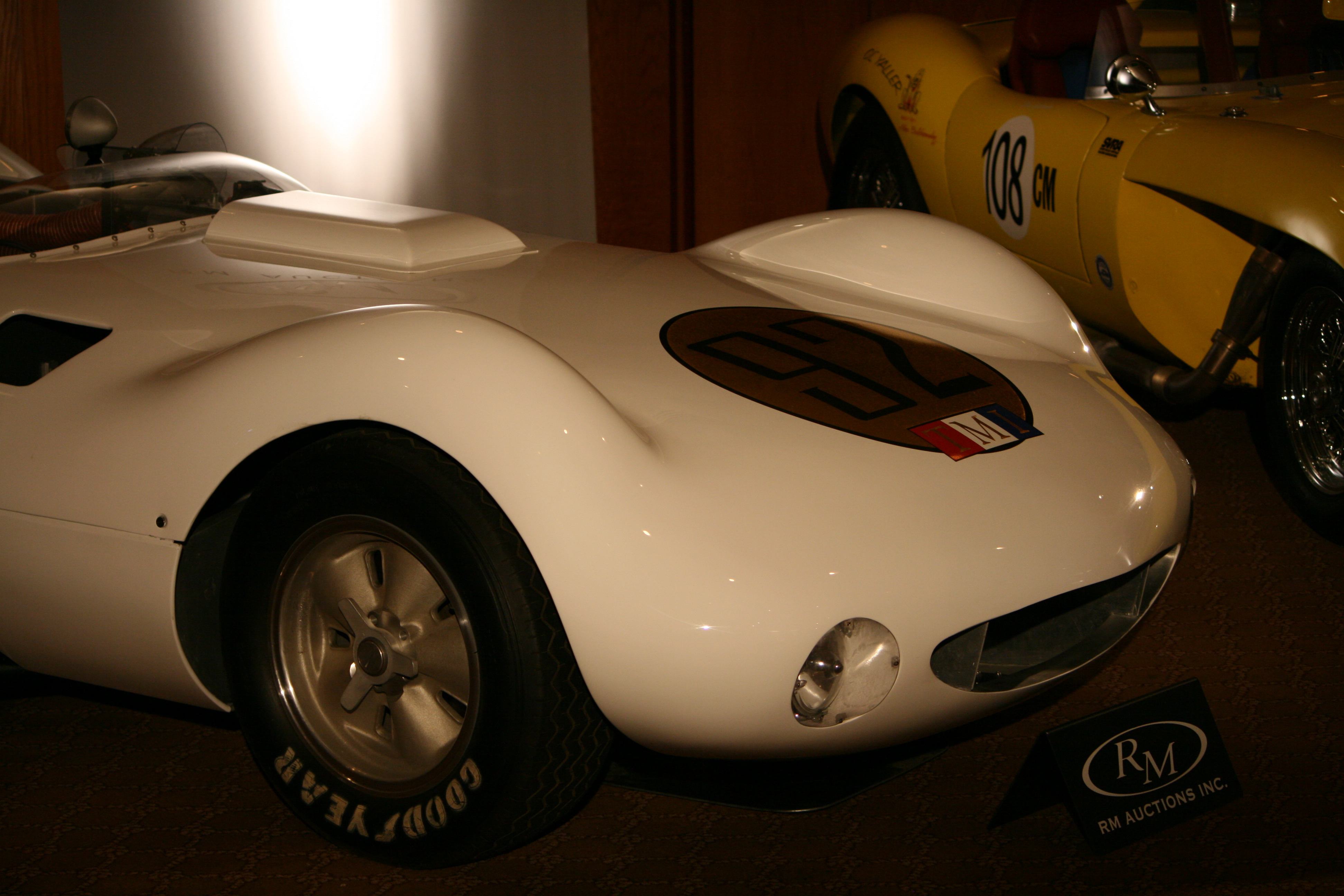 1962 Chaparral 1 at Monterey (Californie)